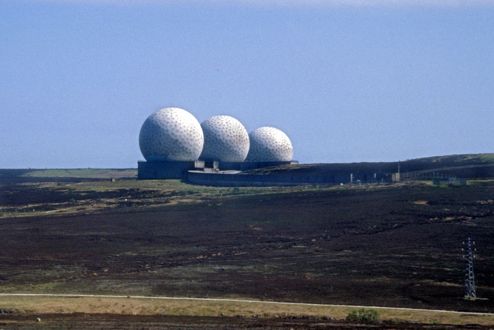 Cold war hardware. The golfballs have been replaced by an equally unnecesssary truncated pyramid- part of the USA's Starwars project.